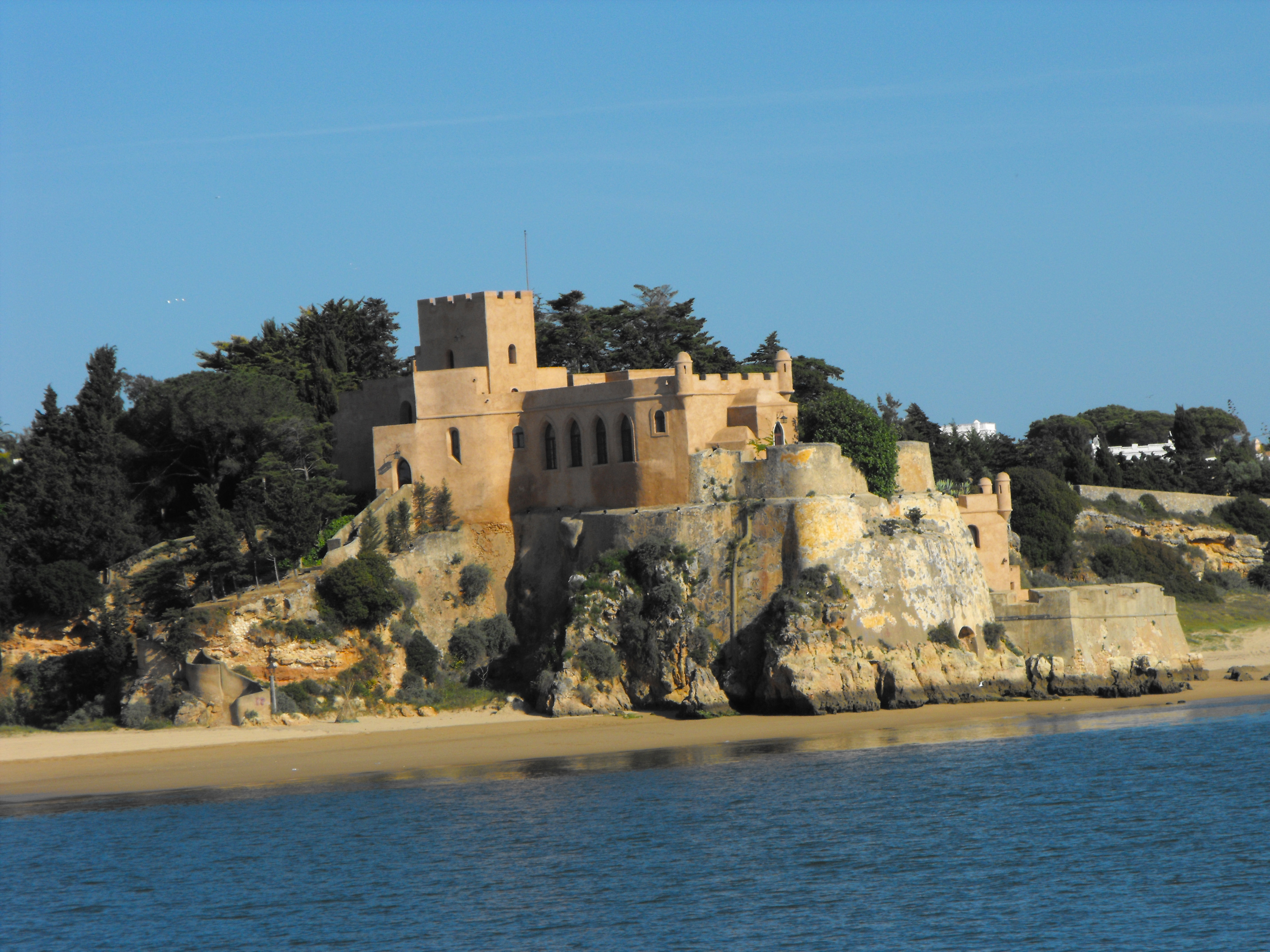 This file was uploaded for Wiki Loves Monuments in Portugal with the unique identifier 74742.